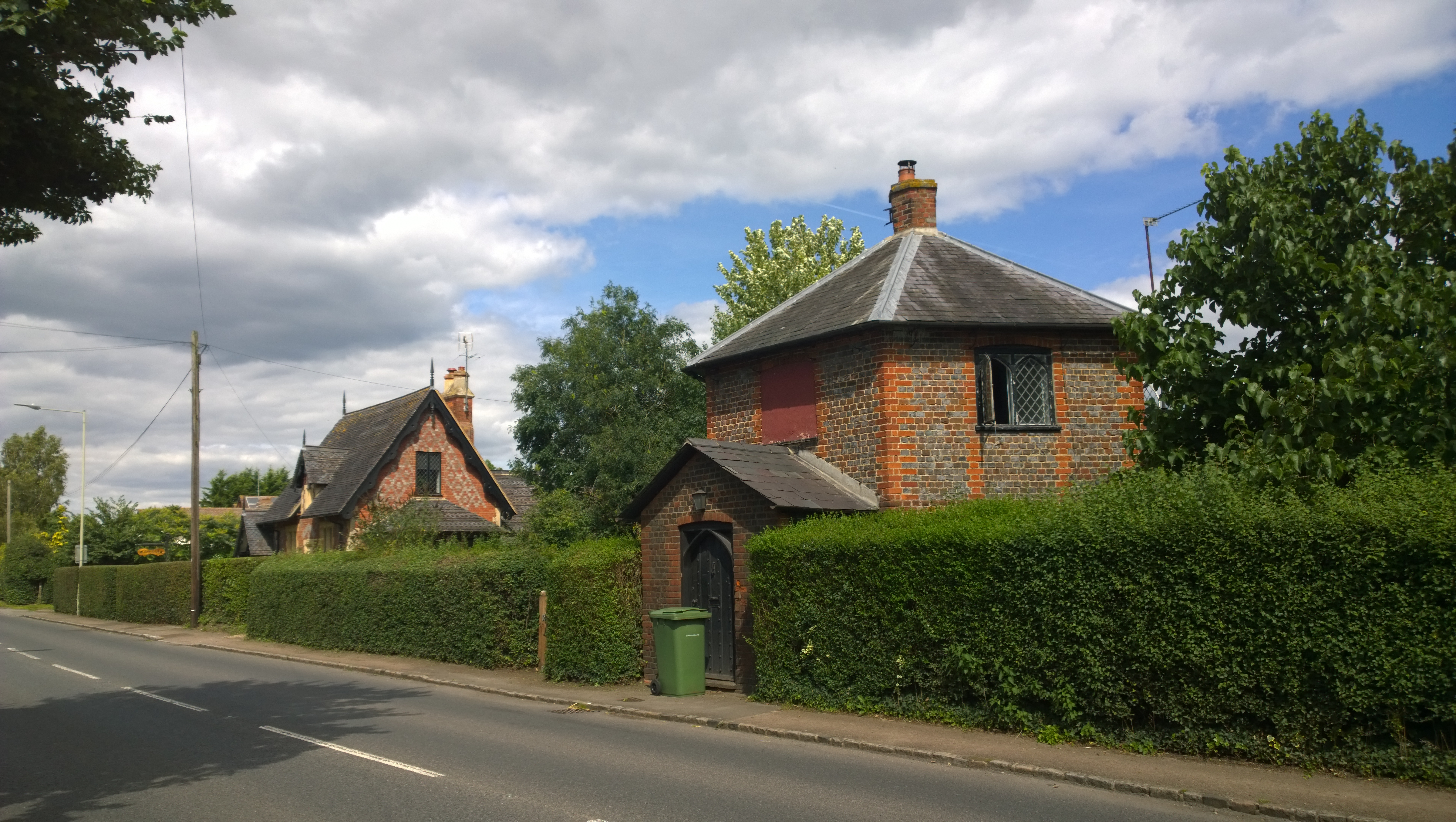 The Round House Wikidata has entry Q26510482 with data related to this item.